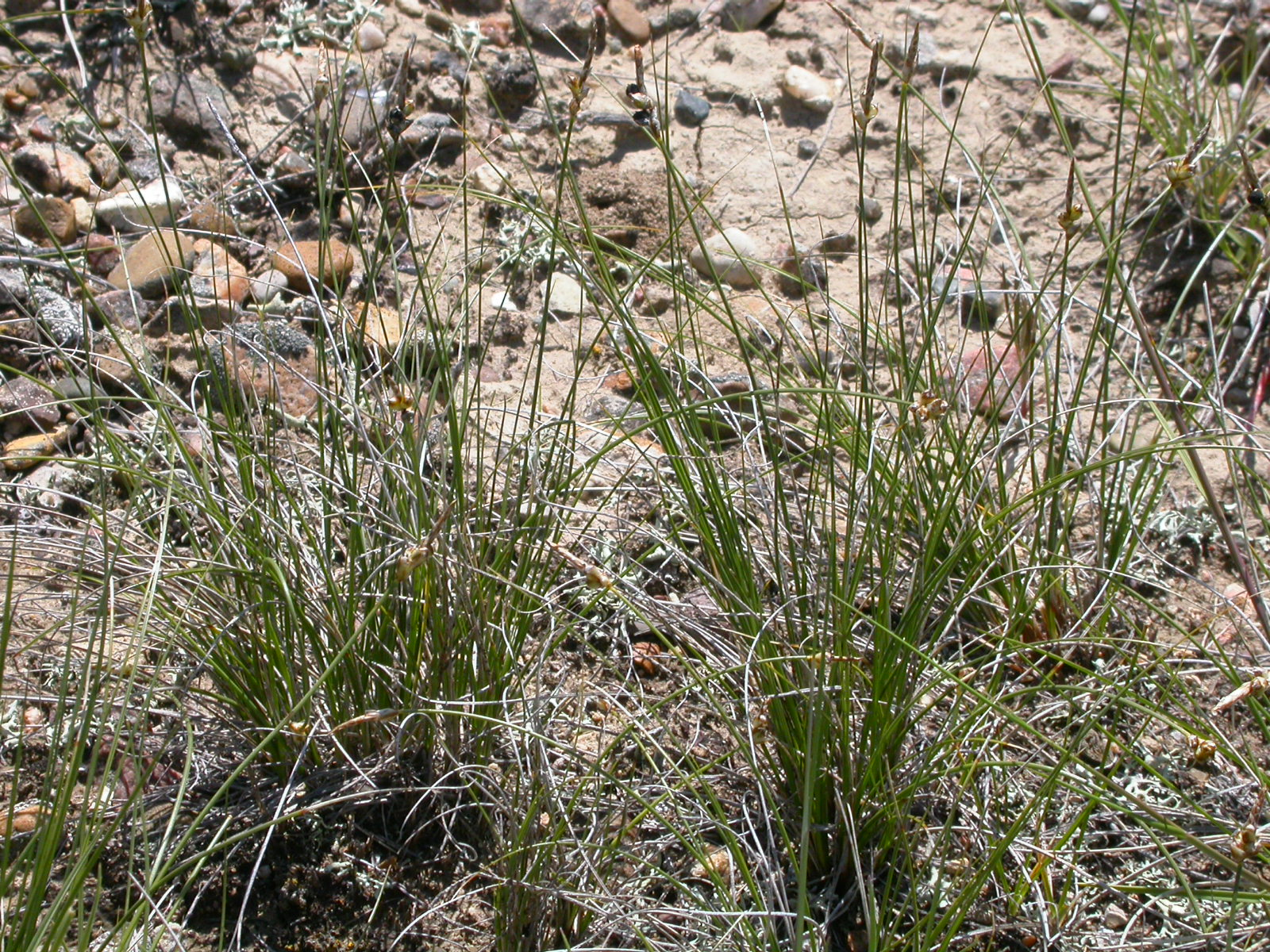 This sedge can tolerate a fair amount of disturbance and its local abundance could be a result of historical perturbation of the original plant community.